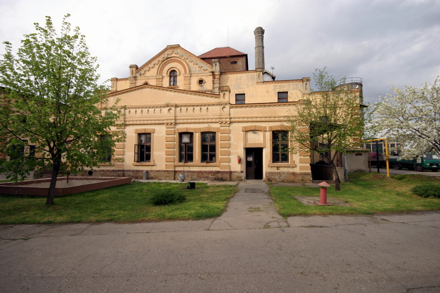 Brewery in Bečej Srpski (latinica): Pivara u Bečeju